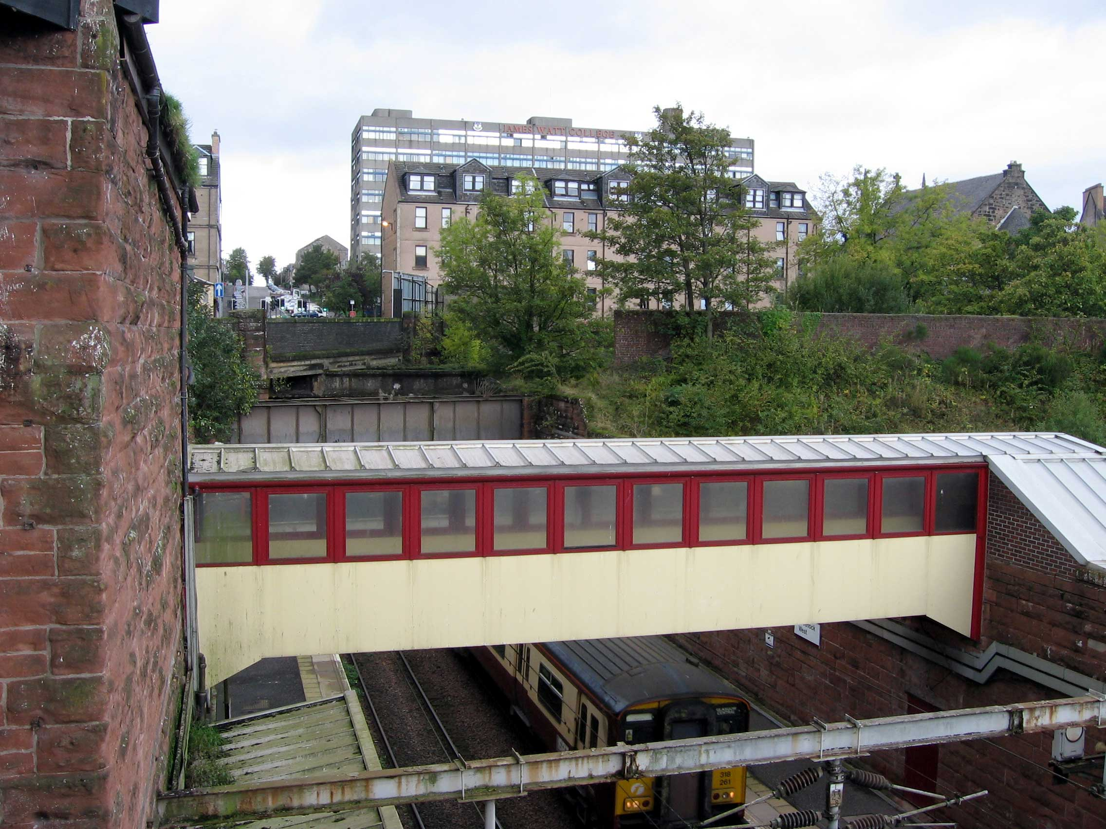 Strathclyde Partnership for Transport British Rail Class 318 train 318261 at Greenock West railway station, Creenock